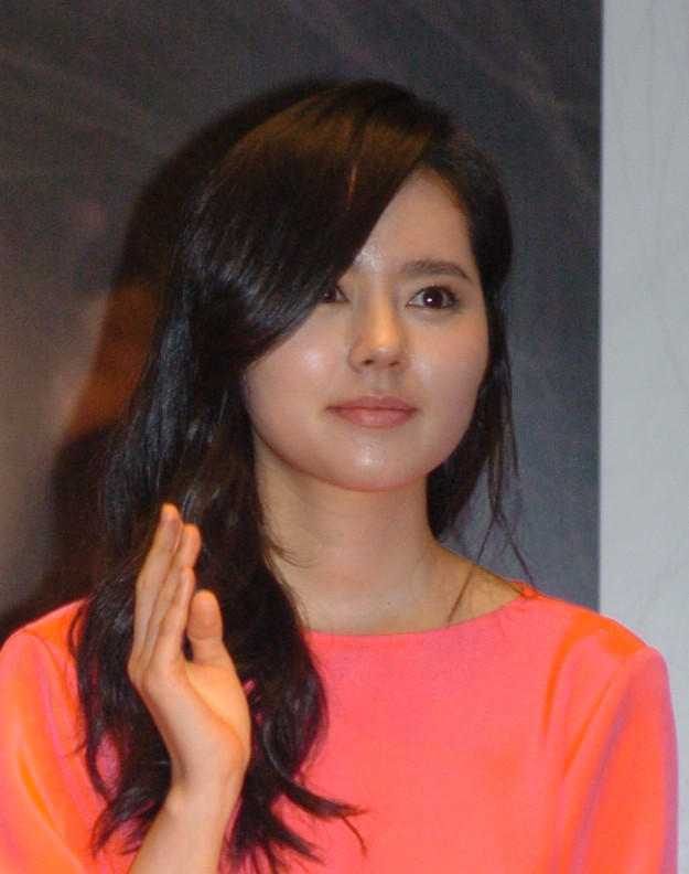 Han Ga-in at the press conference for Architecture 101.